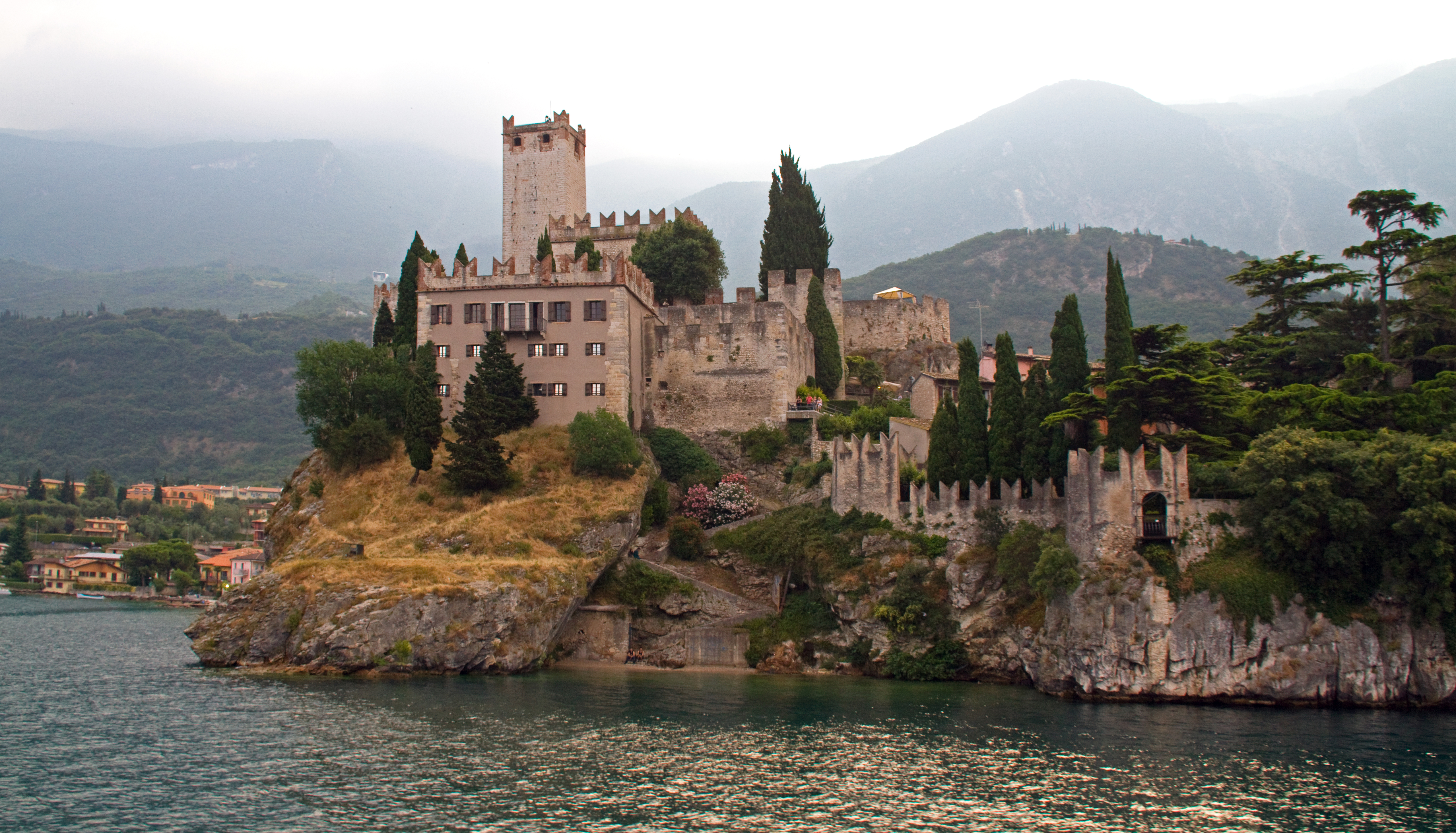 Malcesine castle evening